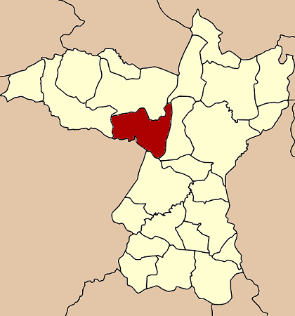 Map of Khon Kaen Province, Thailand, highlighting the district Nong Rhuea (อำเภอหนองเรือ)